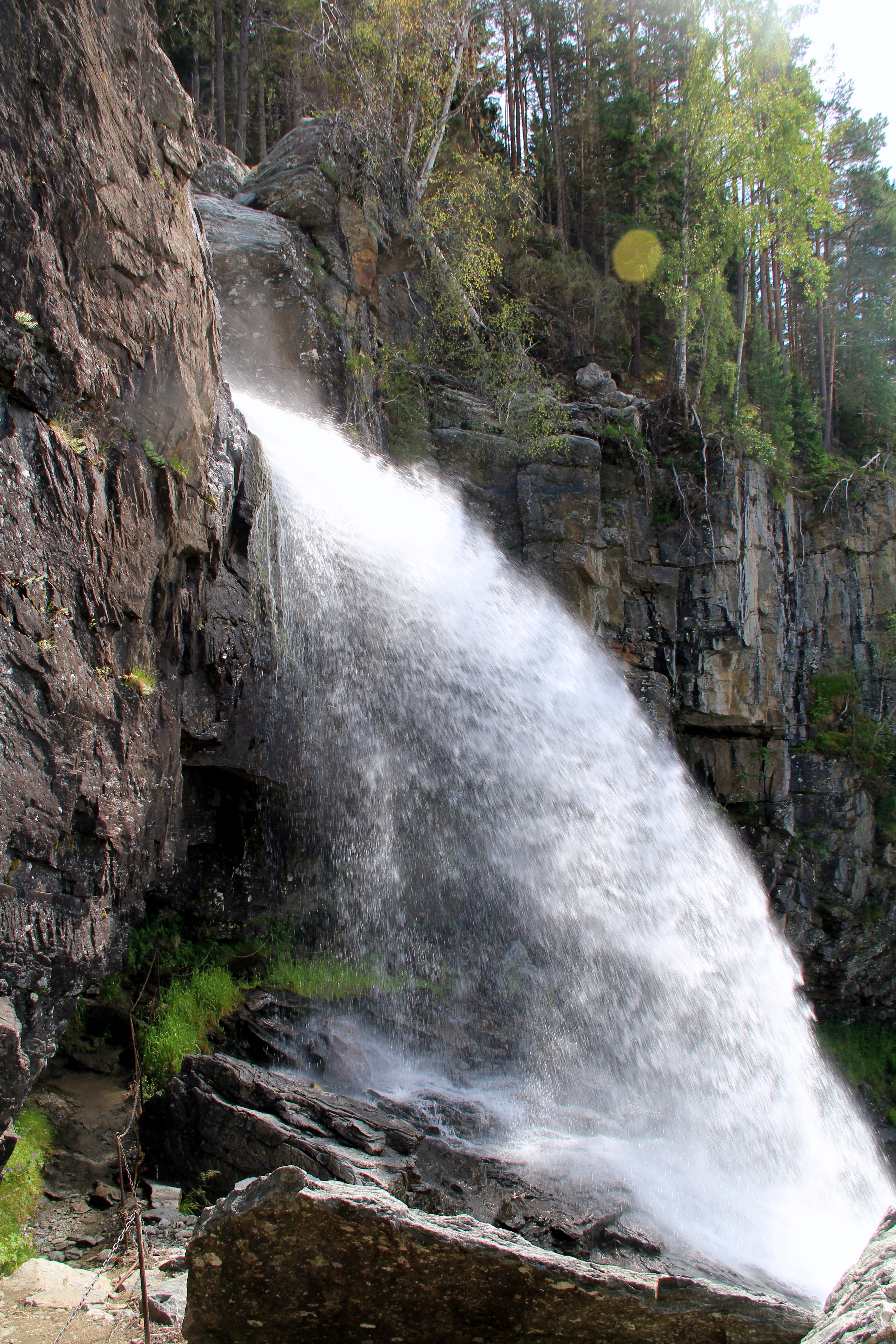 Tvinnefossen, waterfall in Stryn, Norway with passway underneath